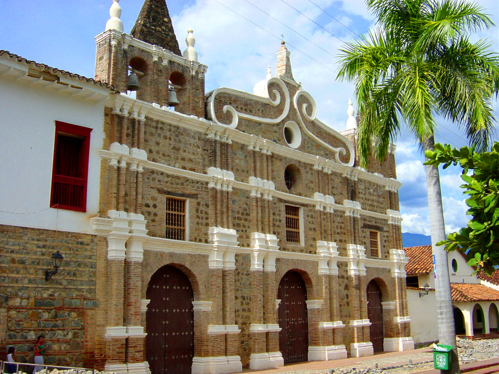 Taken by uploader on October 23rd., 2006. All rights released